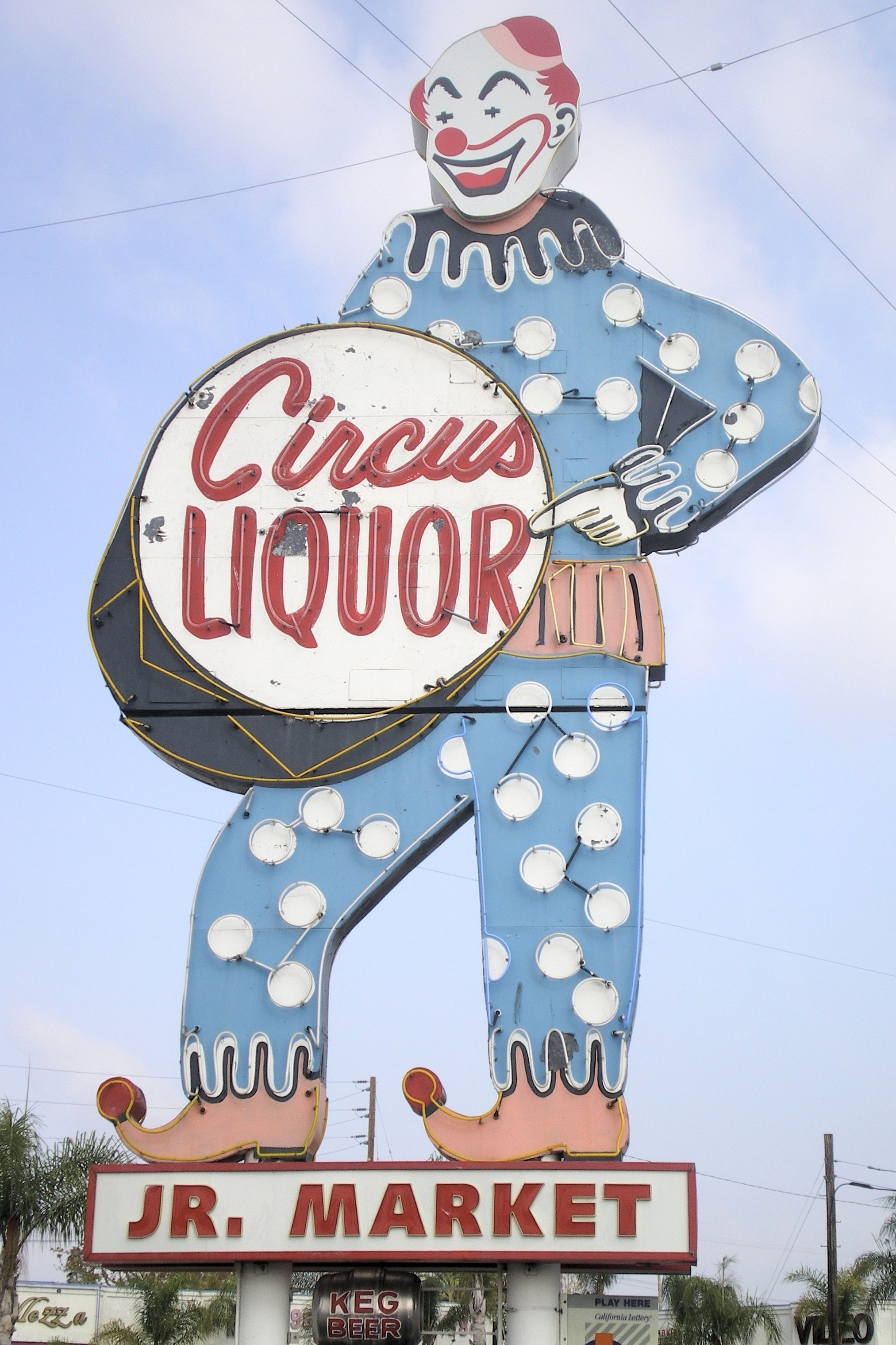 Circus Liquor, 5600 Vineland, North Hollywood, California. Built in 1959.